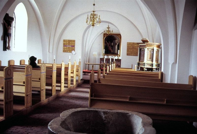 Benløse Kirke (church)